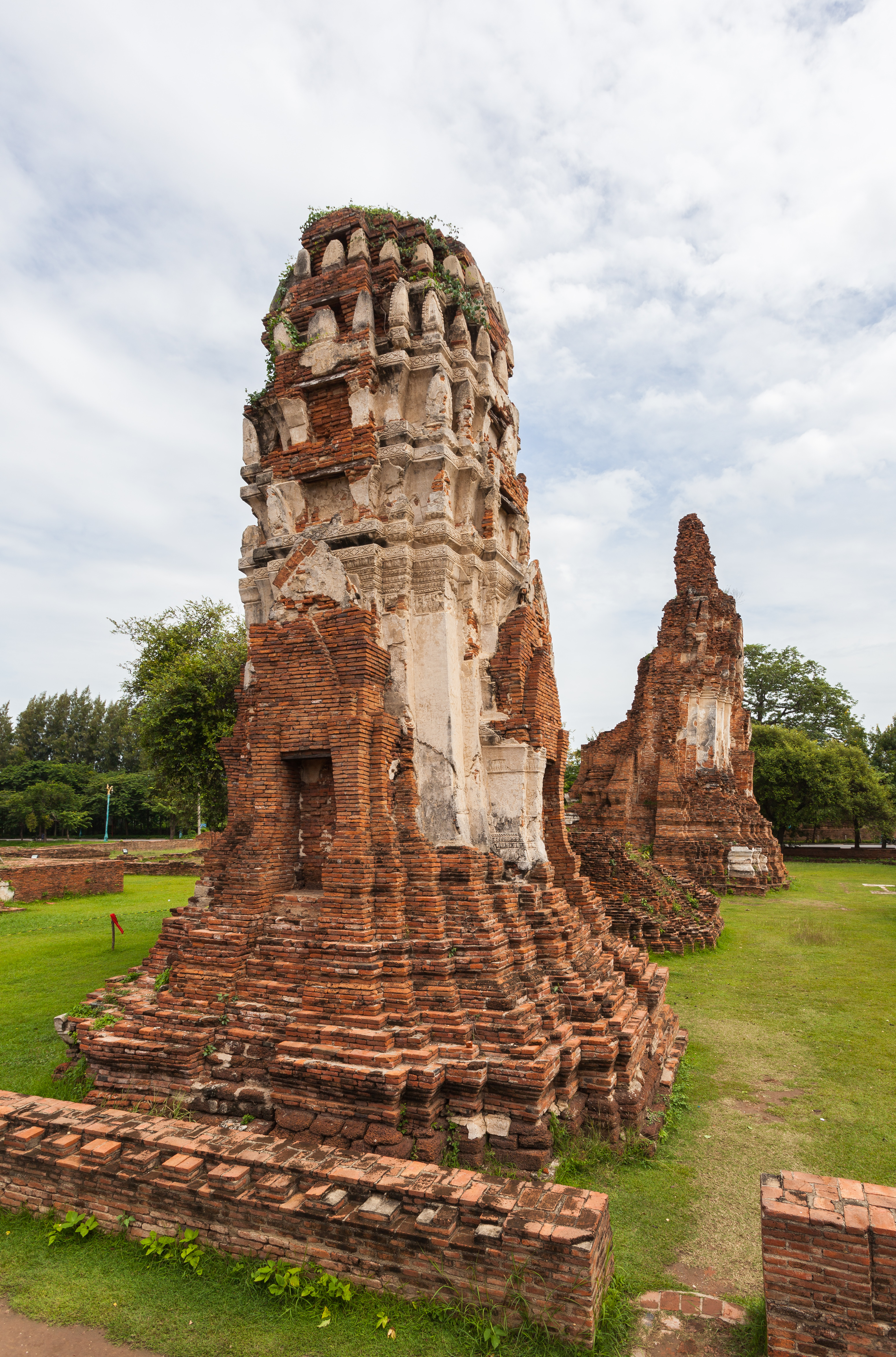 Mahathat Temple, Ayutthaya, Thailand